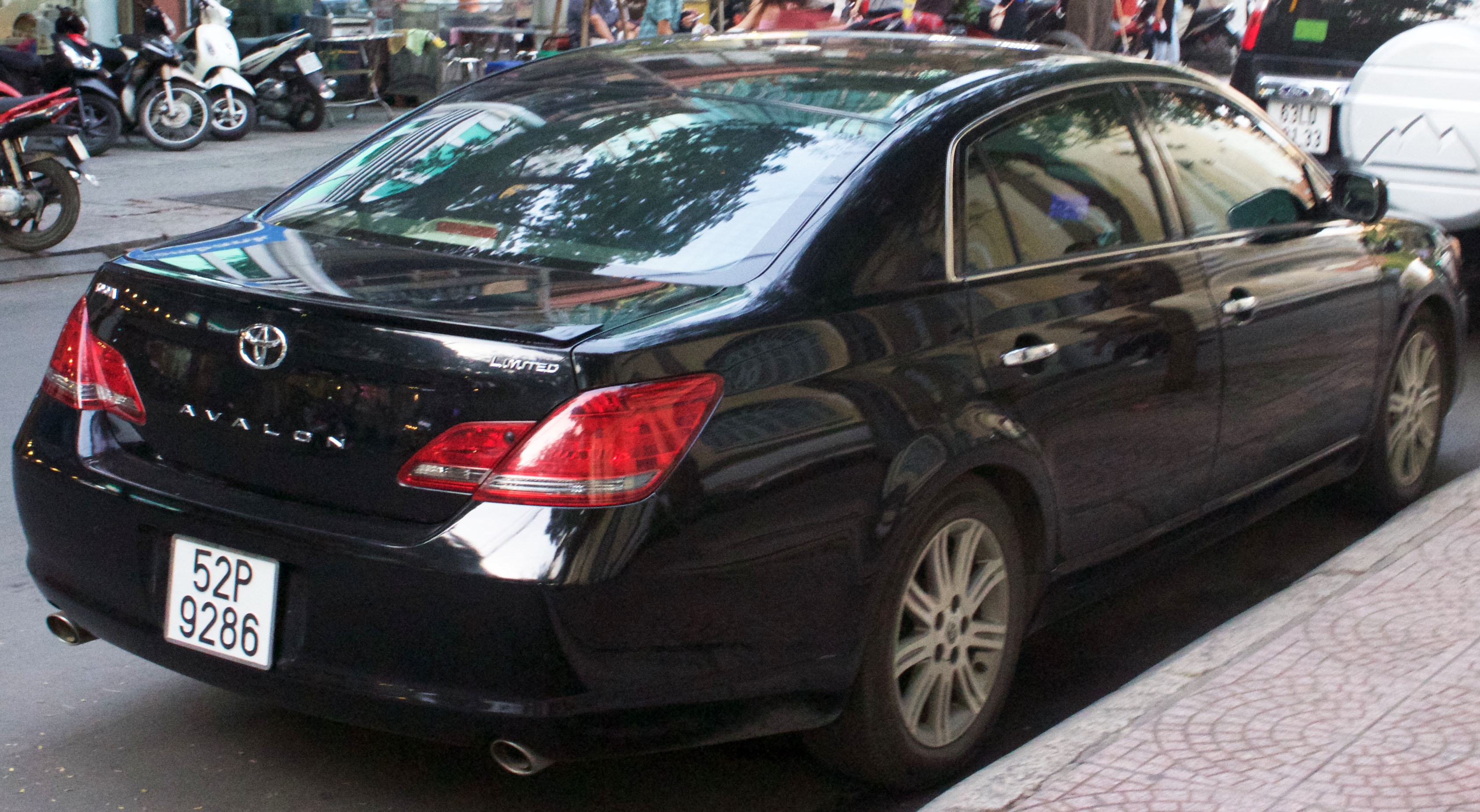 2008-2010 Toyota Avalon (GSX30) Limited sedan, photographed in Ho Chi Minh City, Vietnam